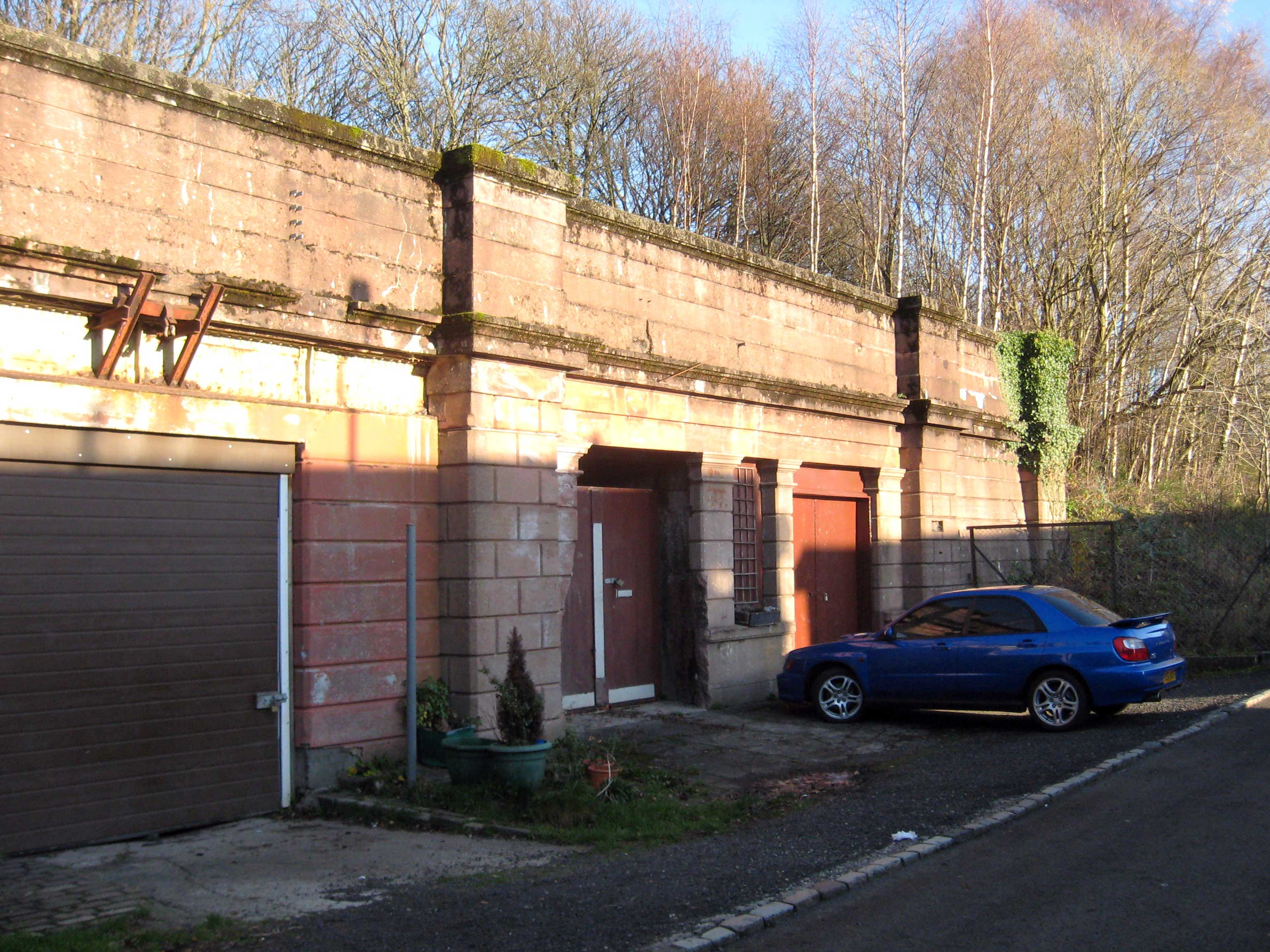 Lanarkshire and Dunbartonshire Railway station building, at Bowling, West Dunbartonshire.